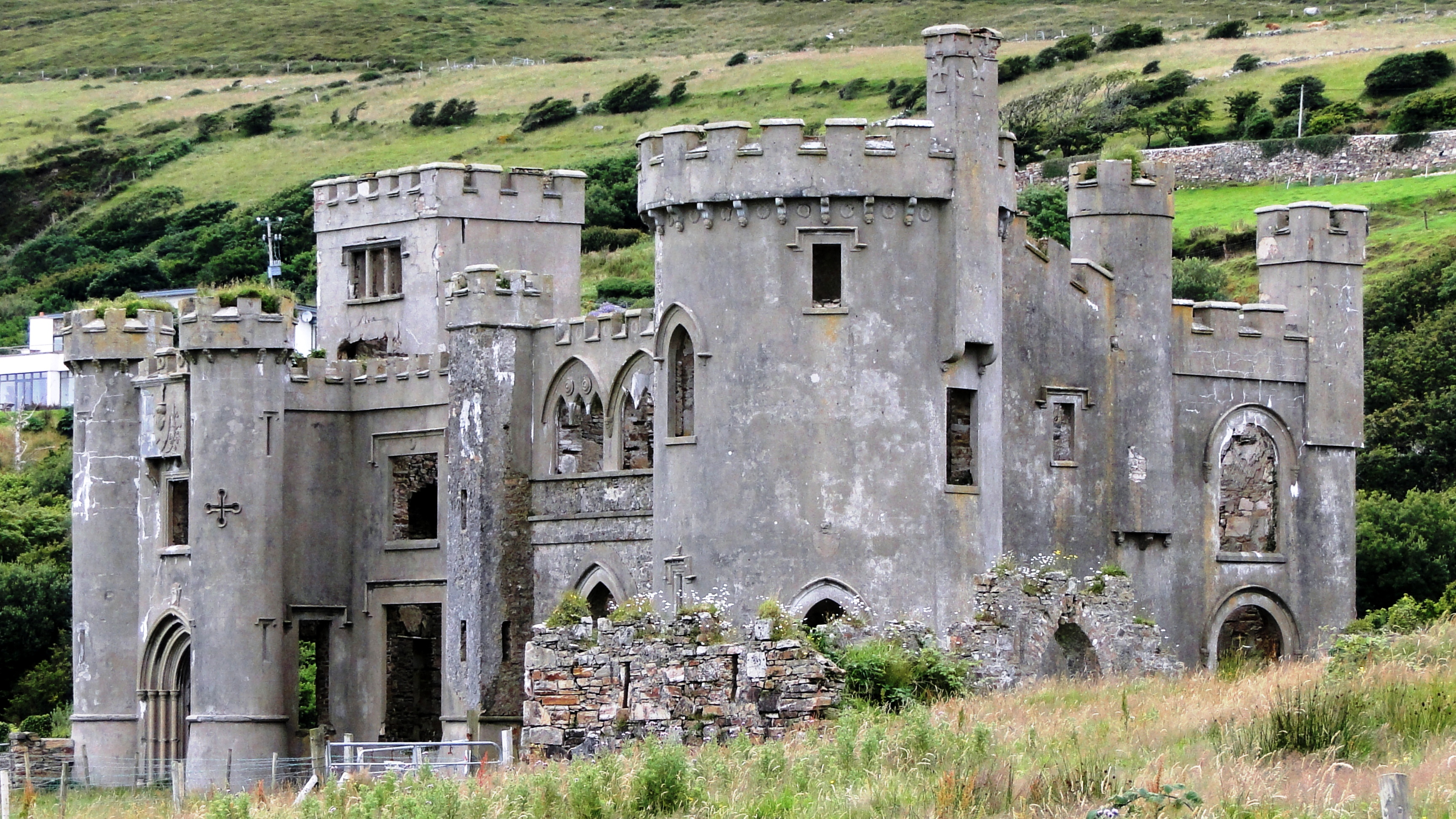 Ruins of Clifden Castle viewed from the southeast